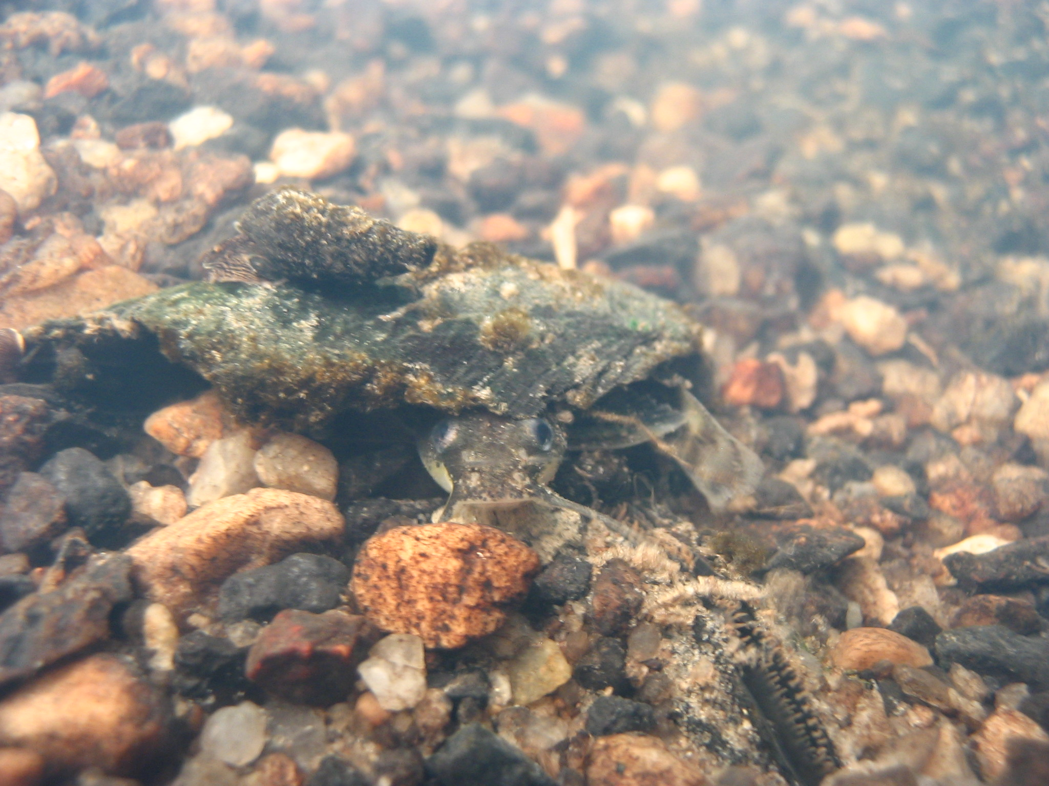 For breeding and sheltering, the Carolina Madtom requires cover for nest sites – this cover can be from cans, bottles, mussel shells, boards, flat rocks, logs, and even tires. Cryptic coloration help this small fish avoid predators. A unique color pattern of yellow, black and tan blotches allow this fish to blend with the rocks and sand on the river bottom. This adaptation increases the madtom's chance of survival by hiding it from predators, a necessary attribute when you are small.